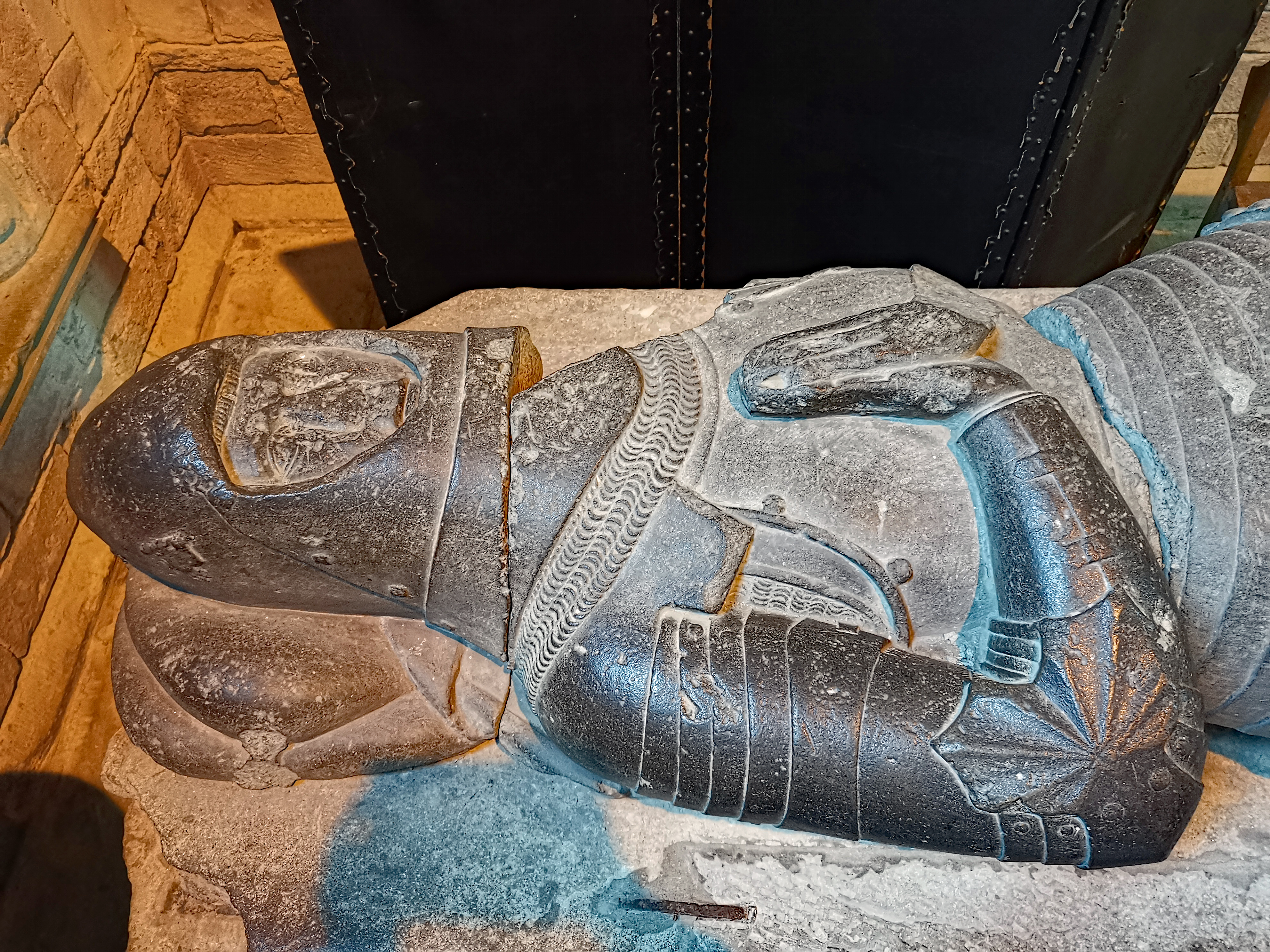 Dunkeld (Perth & Kinross, Scotland, UK)